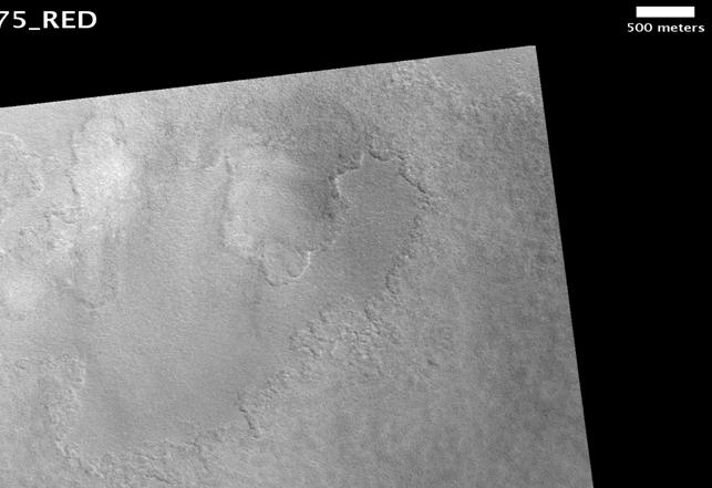 Kunowsky Crater Floor, as seen by hirise. Location is 57.1 degrees north latitude and 350.3 degrees east longitude. Image was taken by the Mars Reconnaissance Orbiter's HiRISE. The HiRISE camera was built by Ball Aerospace and Technology Corporation and is operated by the University of Arizona. Image courtesy NASA/JPL/University of Arizona.